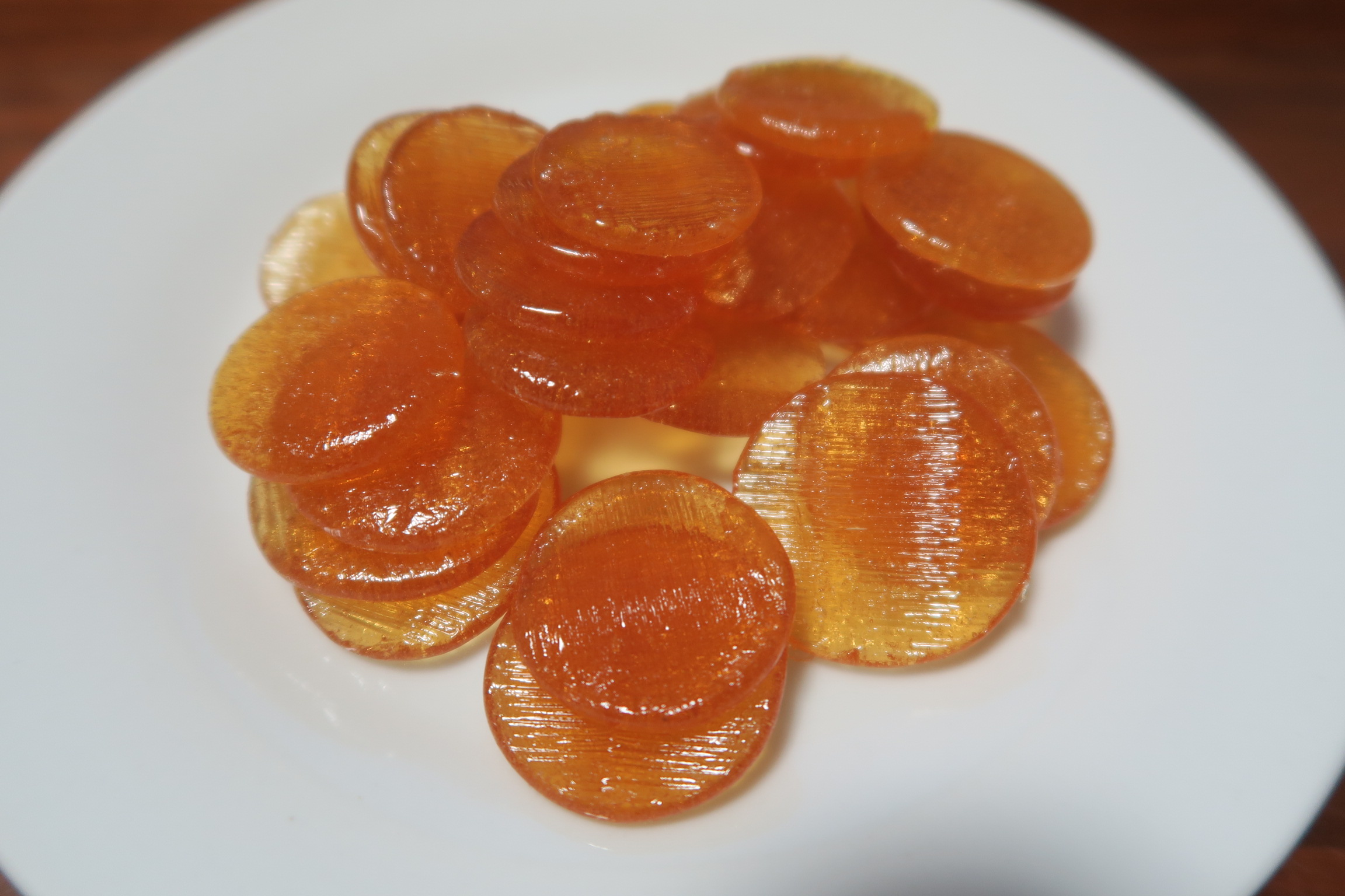 Kanigasaka candy (made in Koka, Shiga, Japan)